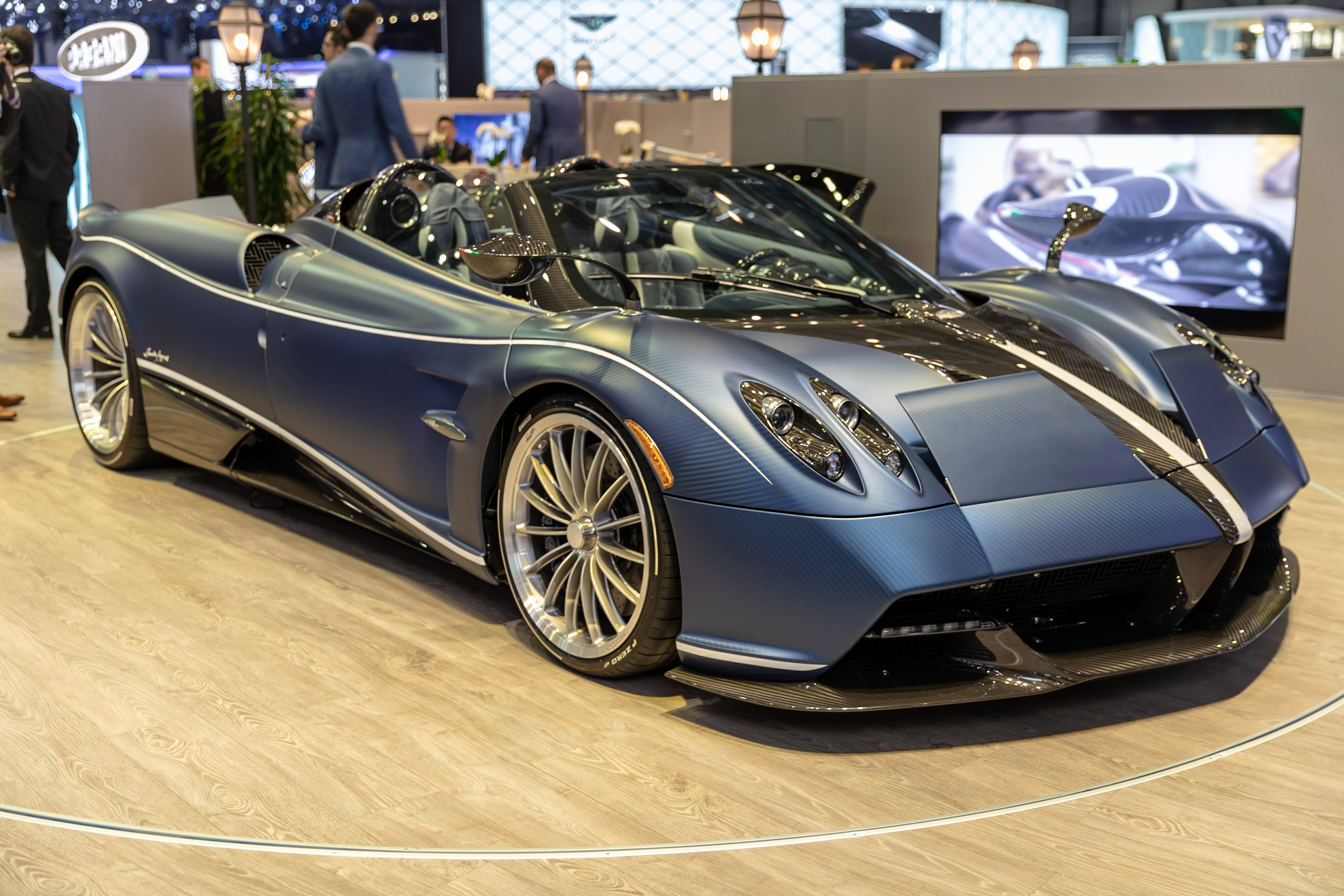 Geneva International Motor Show 2019, Le Grand-Saconnex